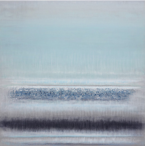 abstract landscape 4